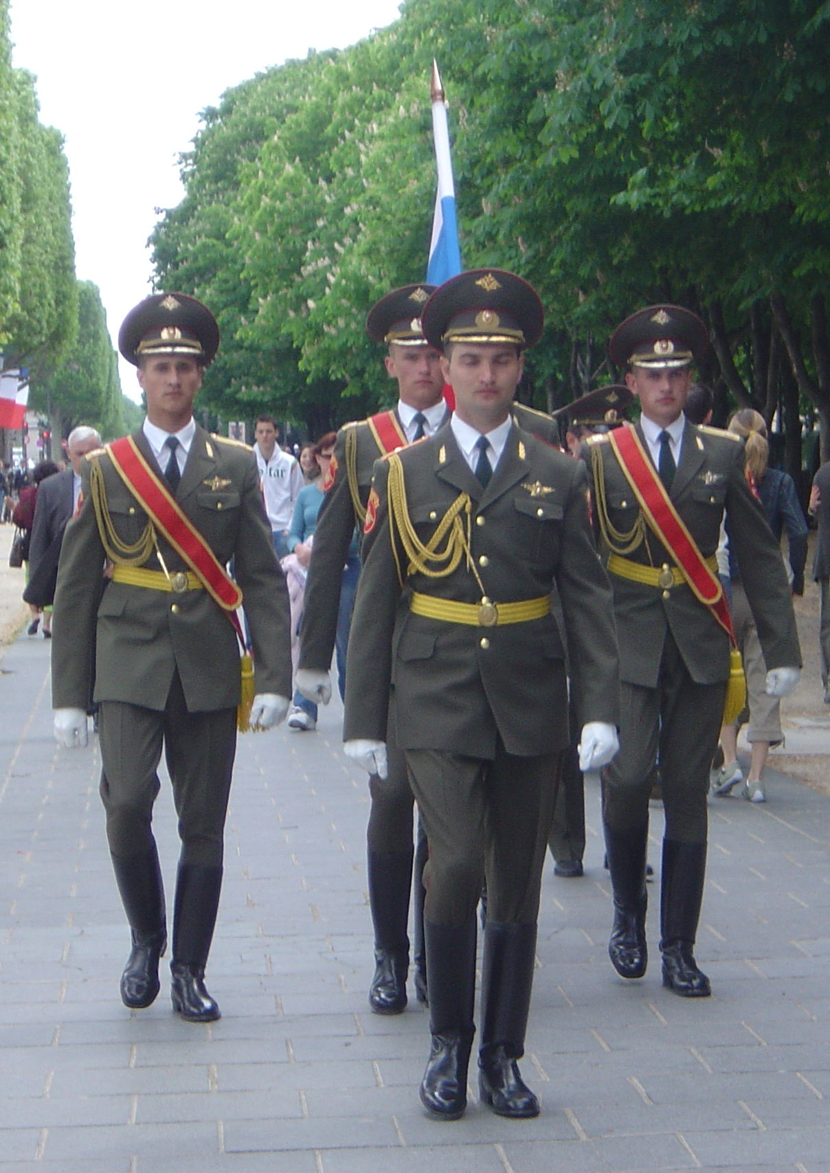 Russian soldiers on the Champs-Élysées (Paris, France) following ceremonies celebrating the 60th anniversary of the Victory against Nazism (May 8, 2005)